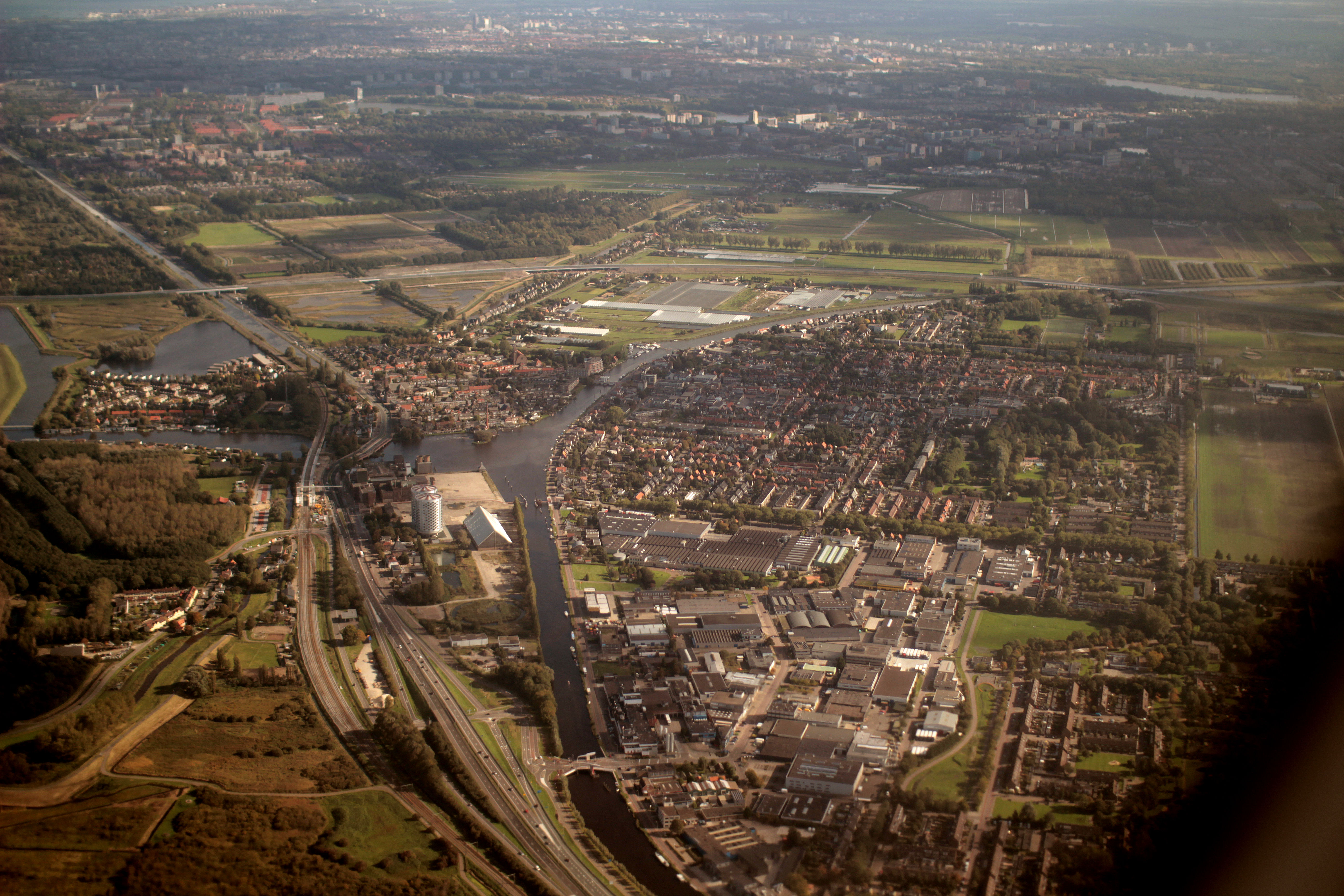 Aerial view of the town of Zwanenburg